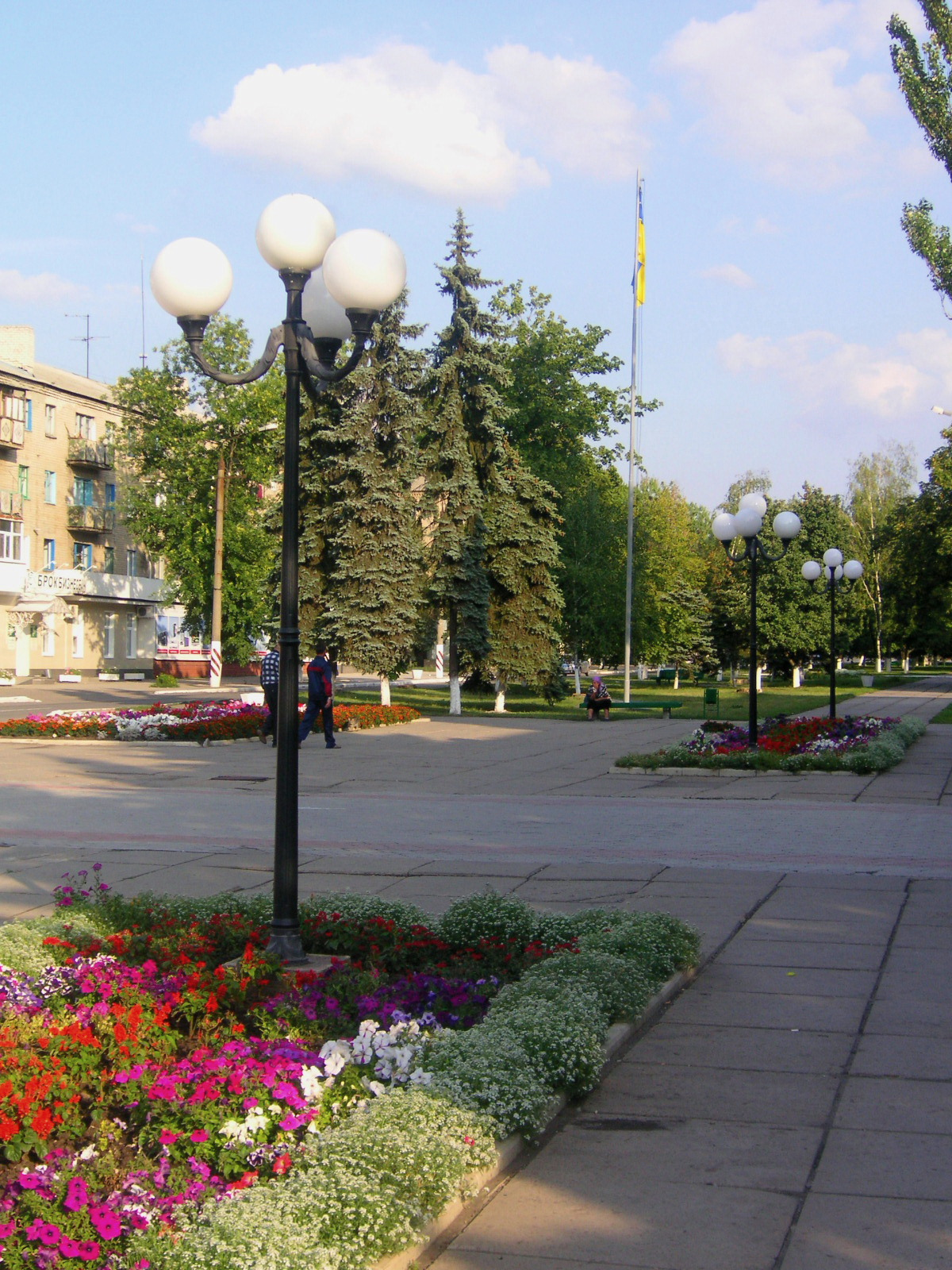 Street Engels (Sverdlovsk)